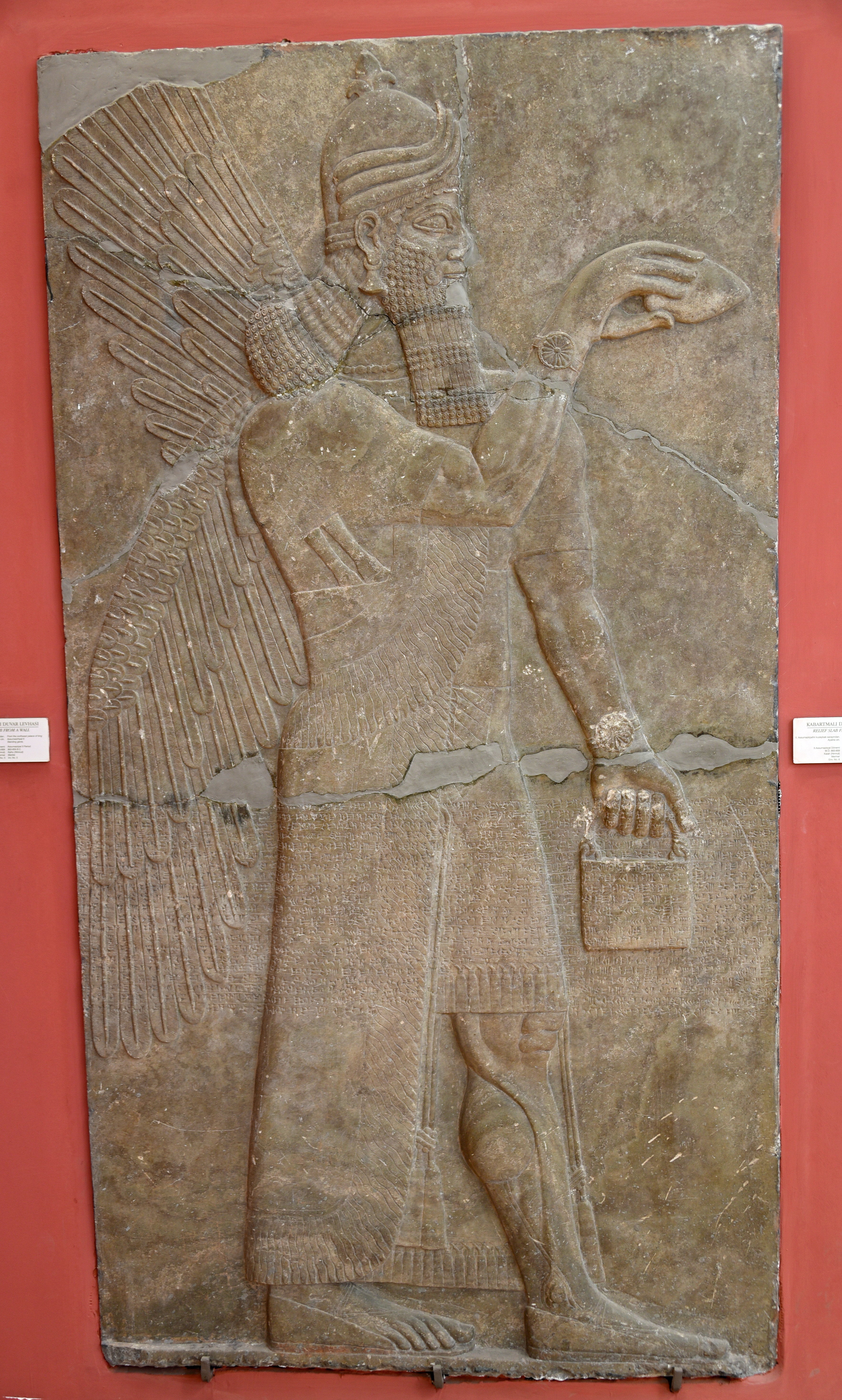 A winged human-headed Apkallu wearing a horned helmet, holding a bucket and a pine cone, and performing a ceremonial ritual. Alabaster bas-relief. From the North-West Palace at Nimrud (ancient Kalhu), Northern Mesopotamia, Iraq. Neo-Assyrian Period, reign of Ashurnasirpal II, 883-859 BCE. Ancient Orient Museum, Istanbul.